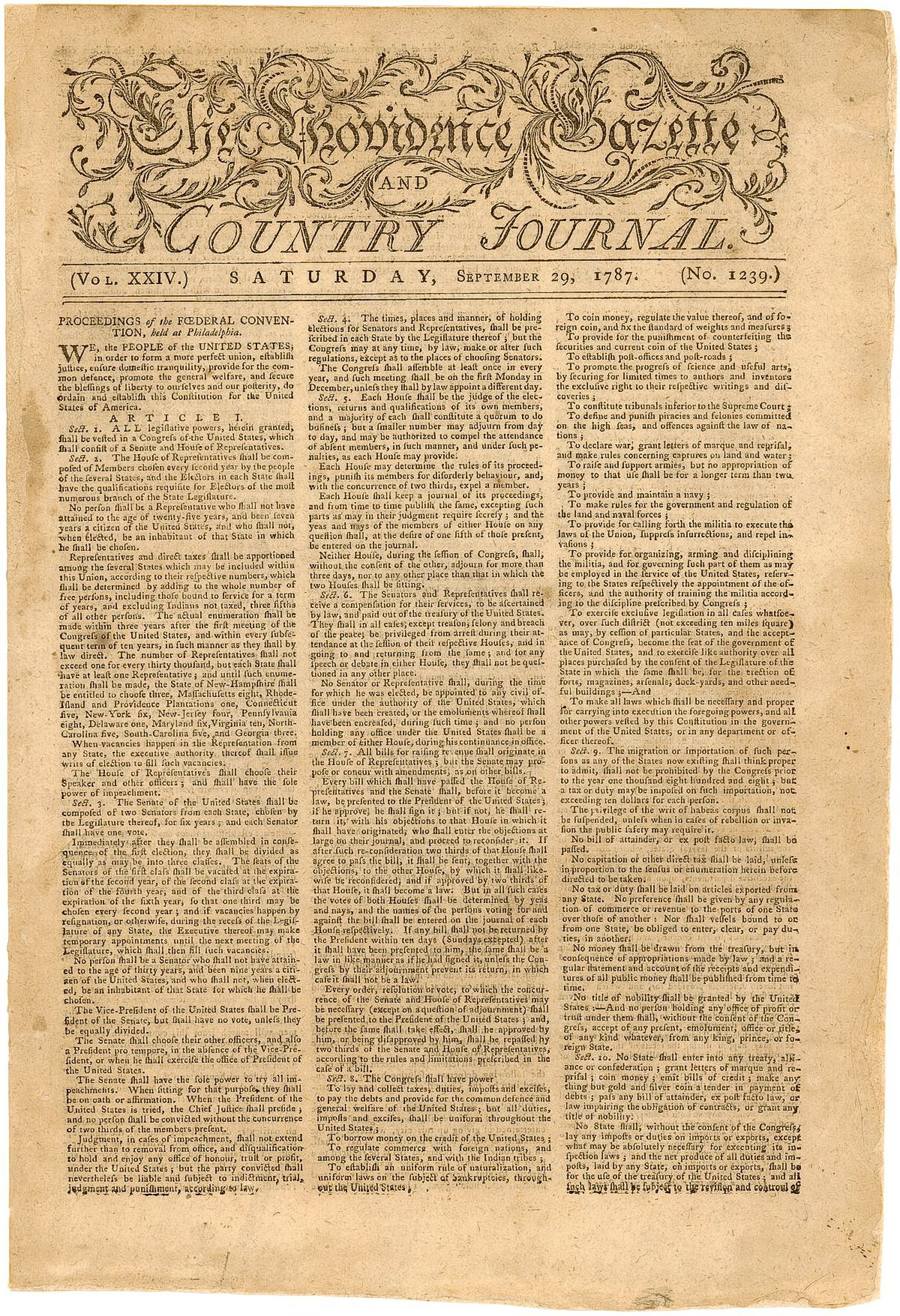 Newspaper image: Providence Gazzette, Sept. 27, 1787, with Constitution printed on front page.